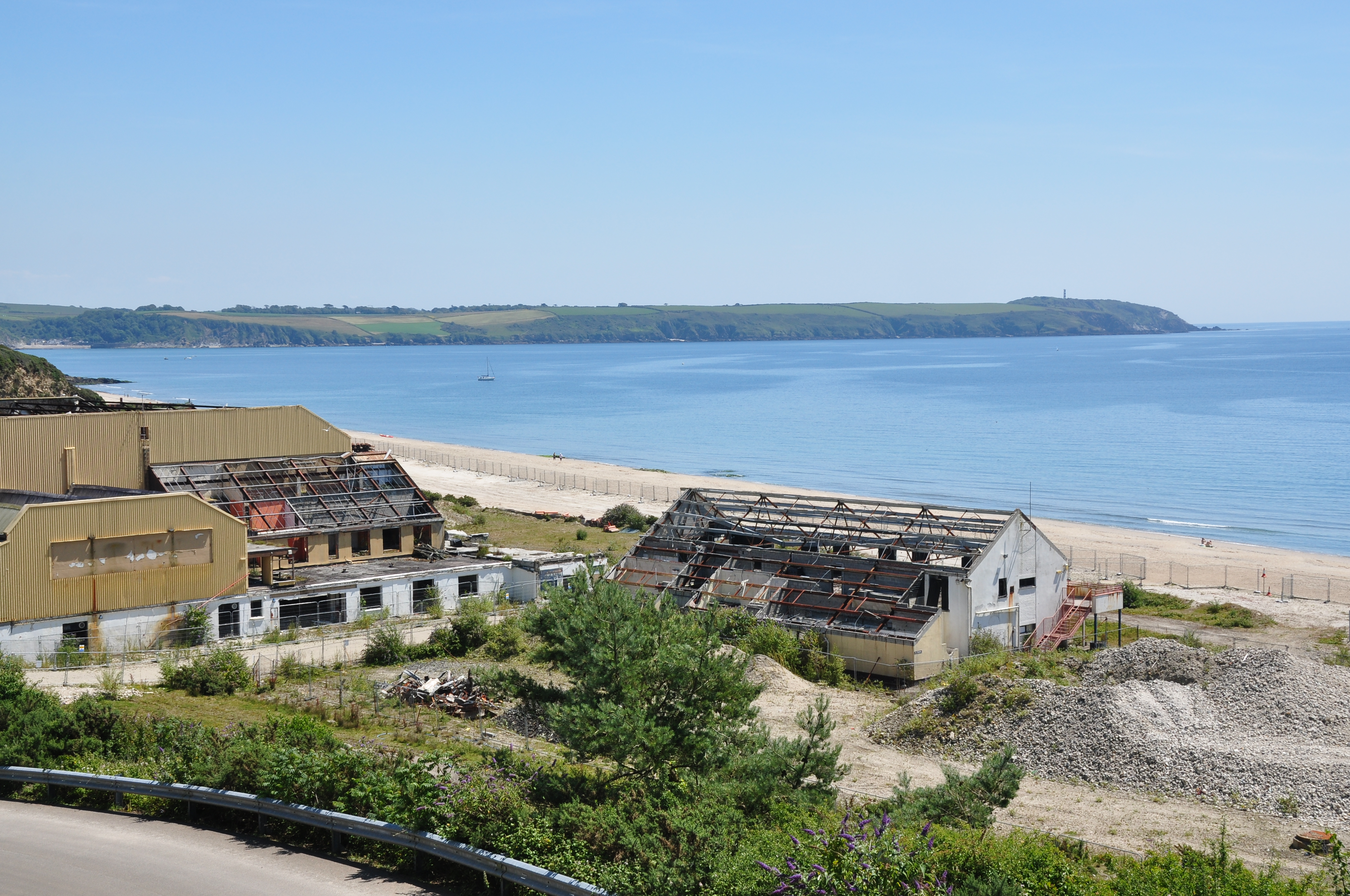 Derelict buildings and beach at Carlyon Bay